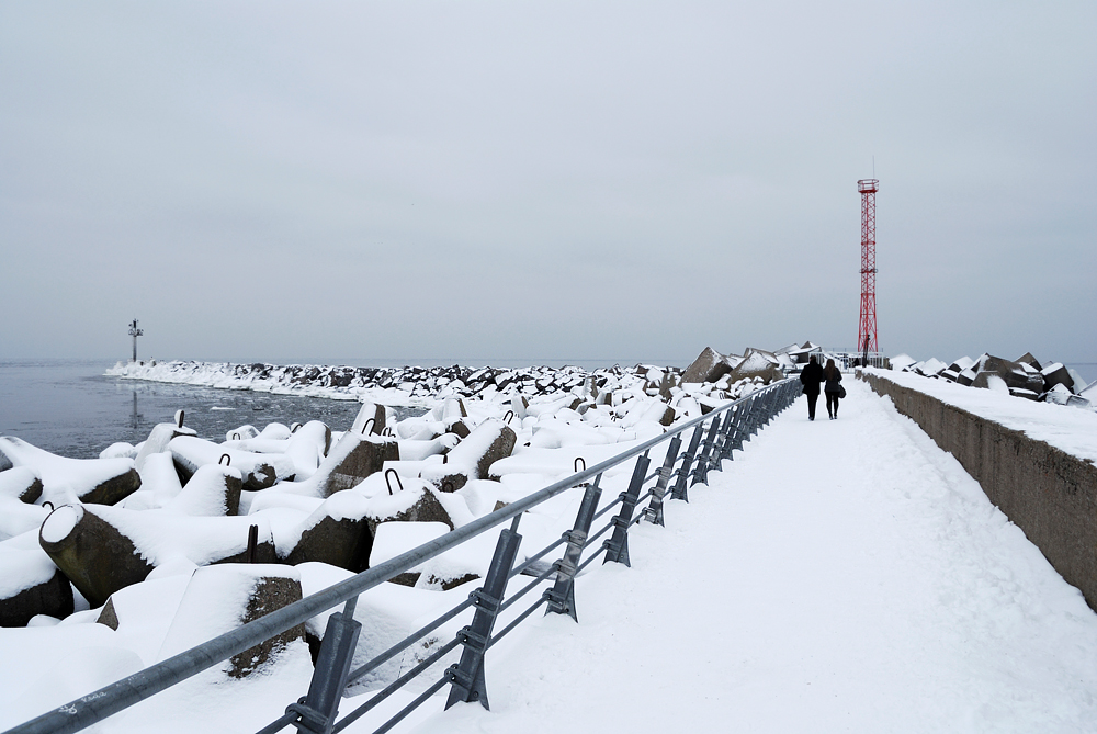 Pier in Klaipeda, Lithuania